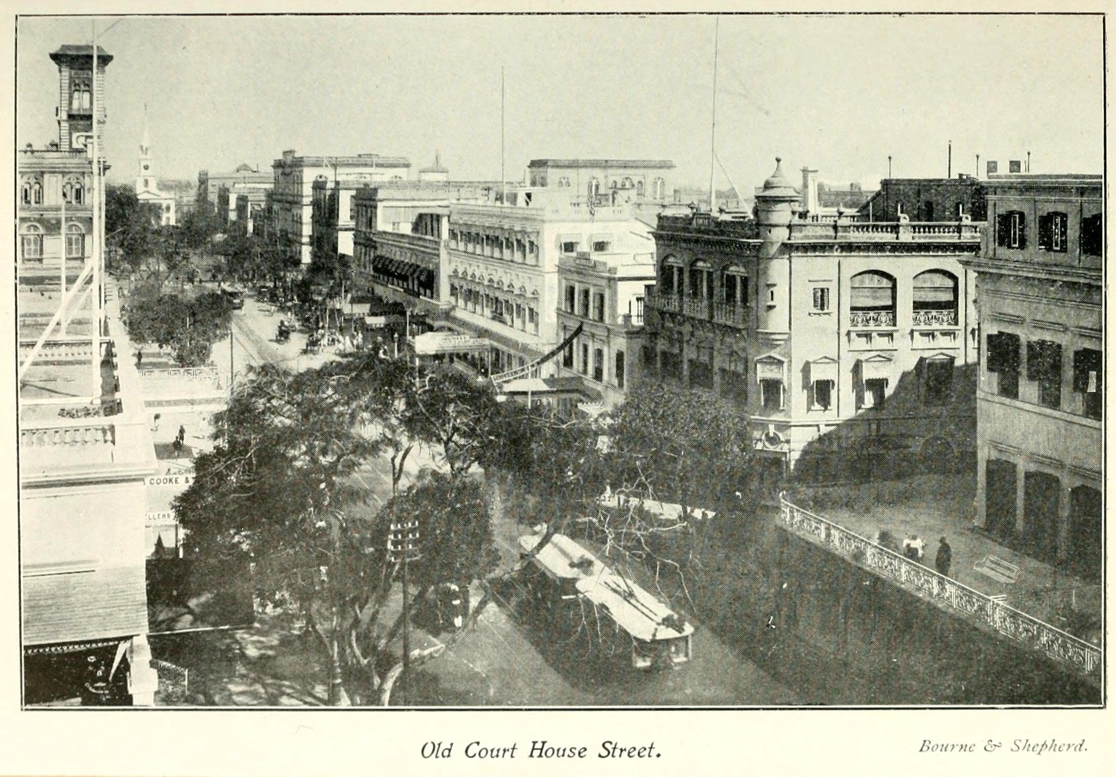 Old Courthouse Street